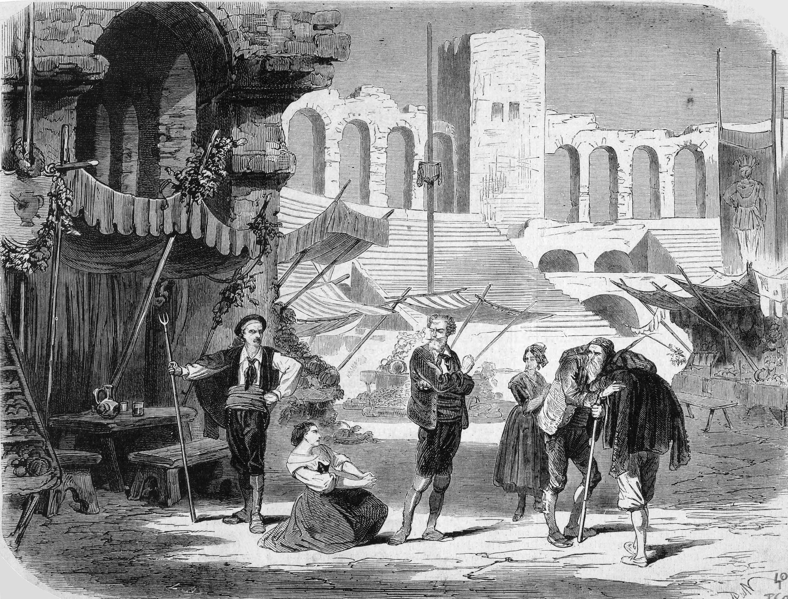 Press illustration of the Act 2 finale of Gounod's opera Mireille